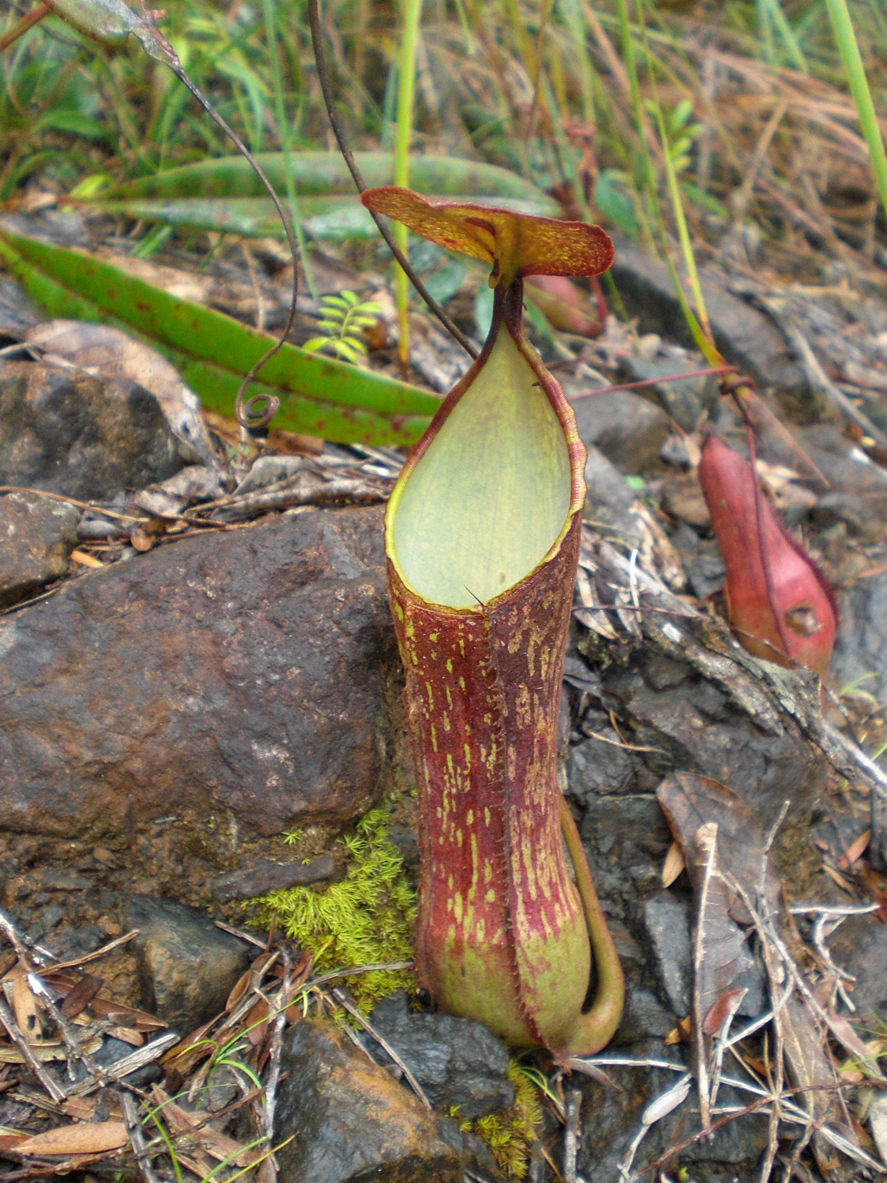 Unidentified Pitcher plant — Nepenthes sp. Found in Mount Hamiguitan Range, San Isidro, in Davao Oriental Province of the Mindanao islands region of the southern Philippines. Taken from Nov 29-Dec 1, 2009.